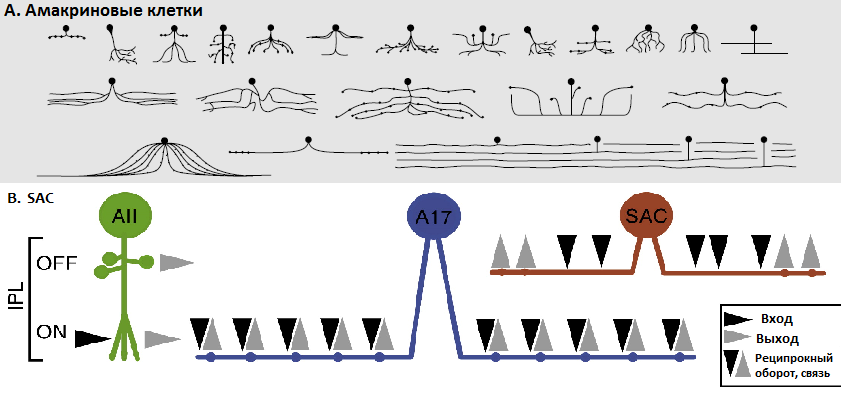 Several types of amacrine cells